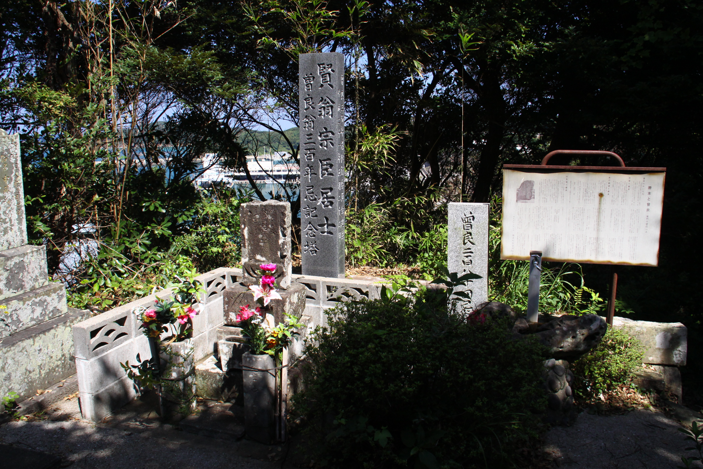 The tomb of Sora Kawai in iki, Nagasaki, Jpan.